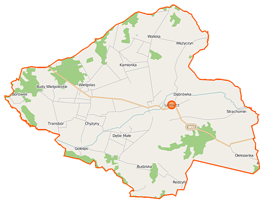 Map of Gmina Latowicz, Poland This map of Latowicz (gmina) was created from OpenStreetMap project data, collected by the community. This map may be incomplete, and may contain errors. Don't rely solely on it for navigation. Border coordinates52.086721.6482←↕→21.895451.9697